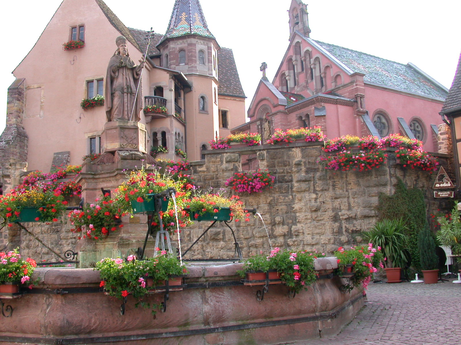 Castle in Eguisheim, Alsace, birthplace of Pope Leo IX